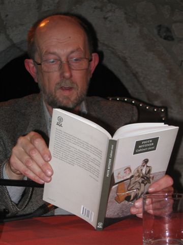 Piotr Mitzner (b. 1955), Polish writer and essayist